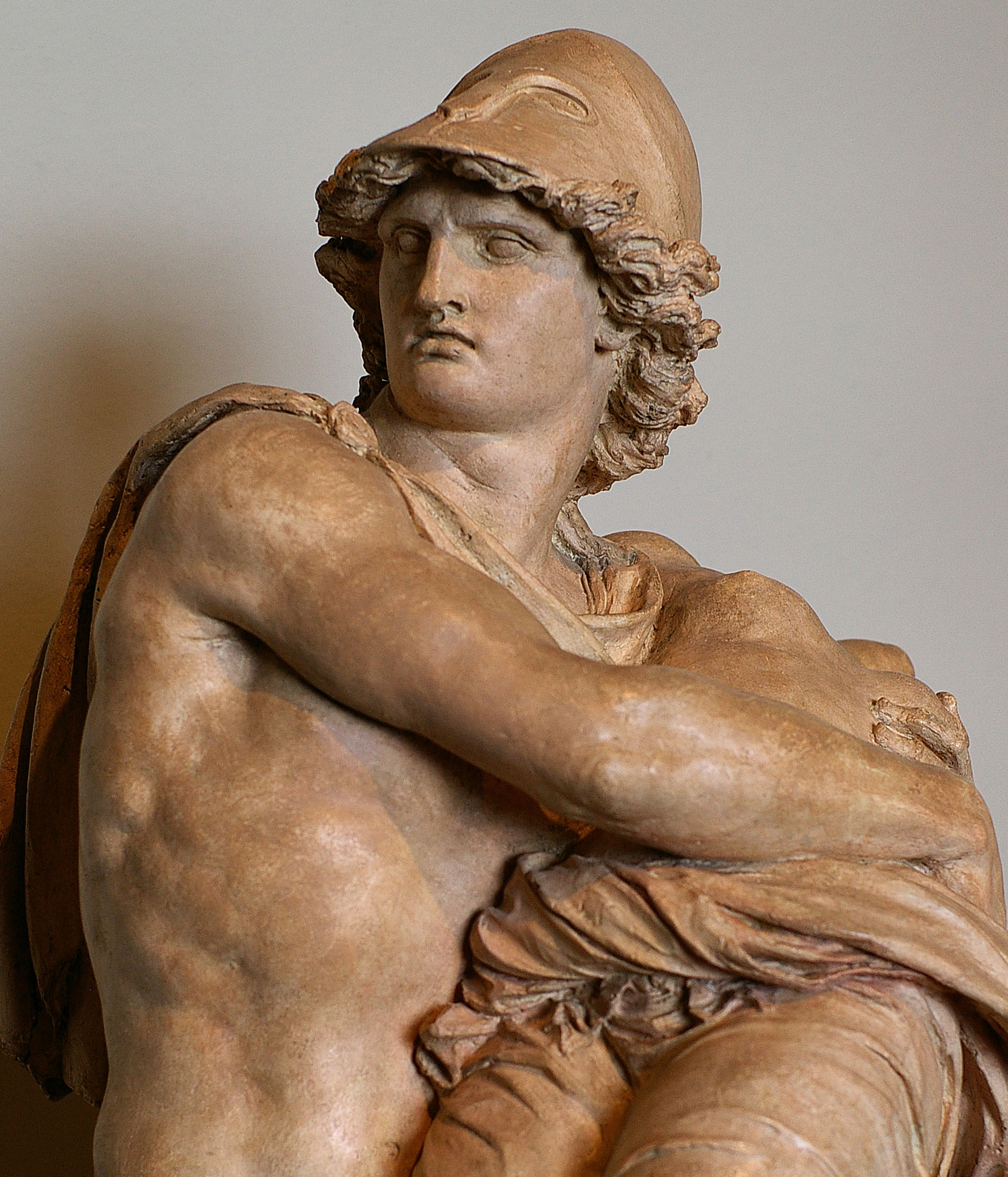 This is a photo of an artwork at the Gothenburg Museum of Art in Sweden with the identifier: 369